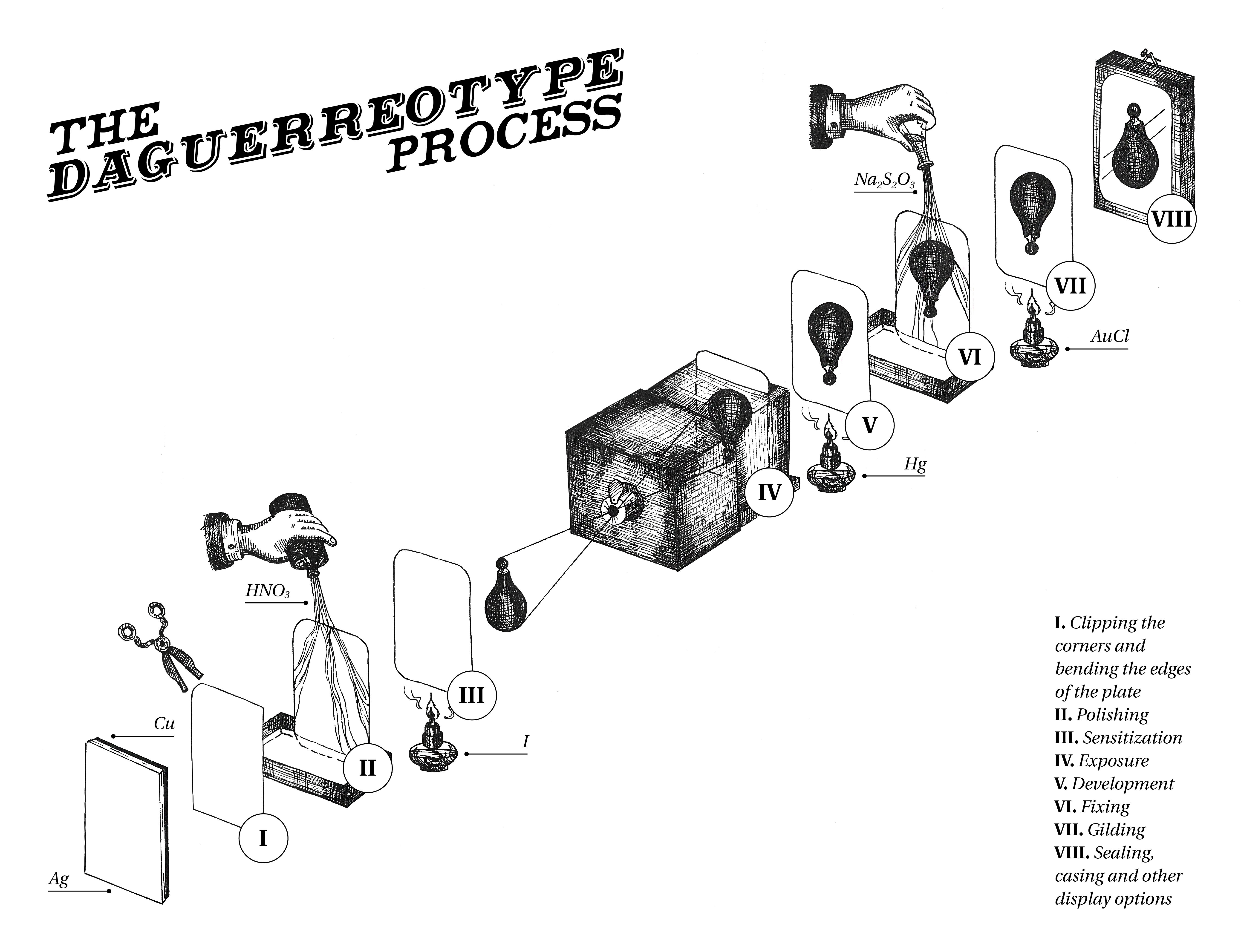 The image shows a simplification of the daguerreotype development process.